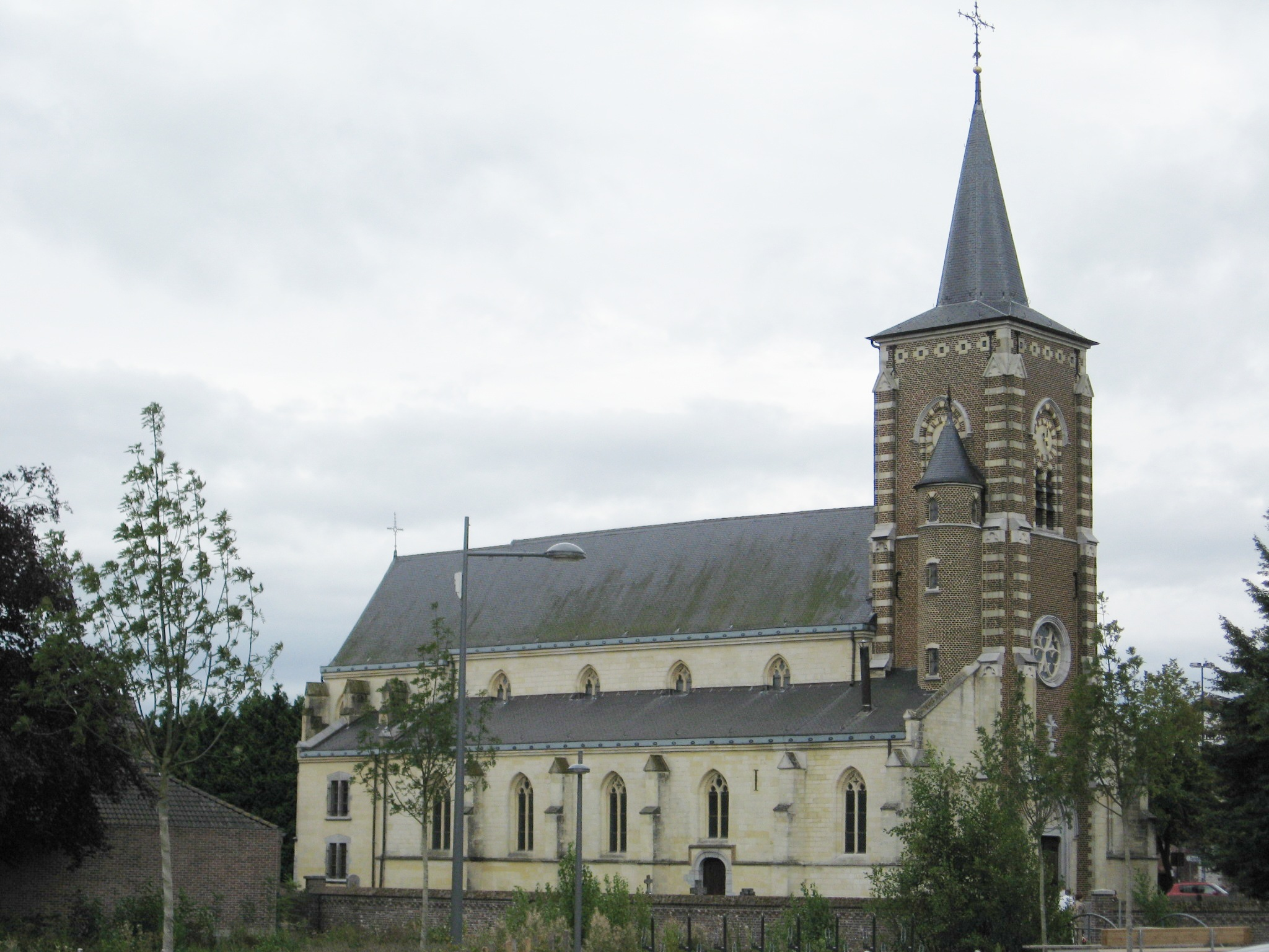 Church of Saint Trudo in Opitter, Bree, Limburg, Belgium